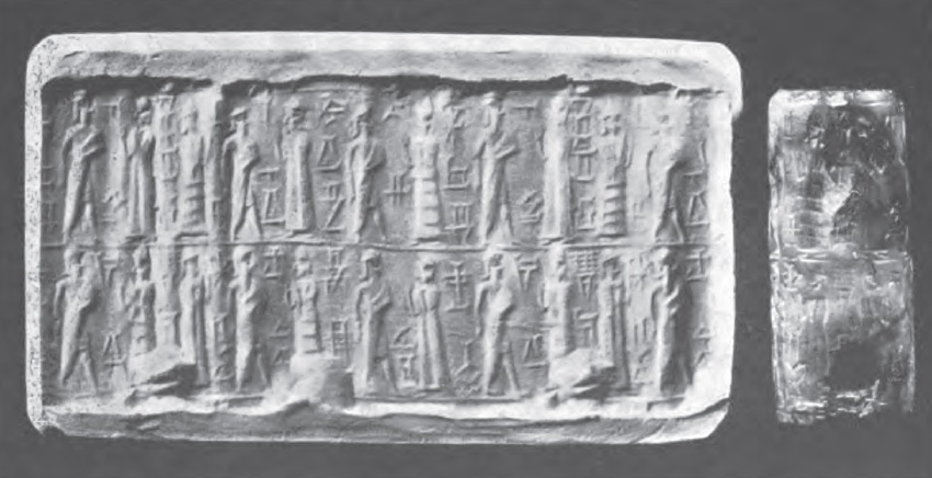 Cylinder Seal of Izkur-Marduk, son of Karaindash, and the seal impression in clay. (note)-Approximately 1.5 rolls (circumference) of the cylinder seal.